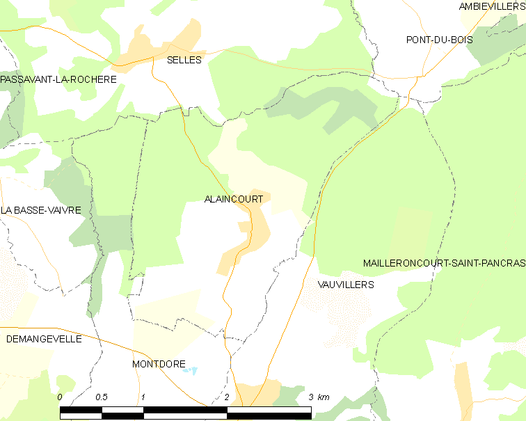 Map of French municipality